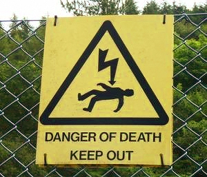 "Danger of death" sign on an electricity transmission substation on the Isle of Mull. Photo 13/7/05, uploaded by the author 14/7/05.